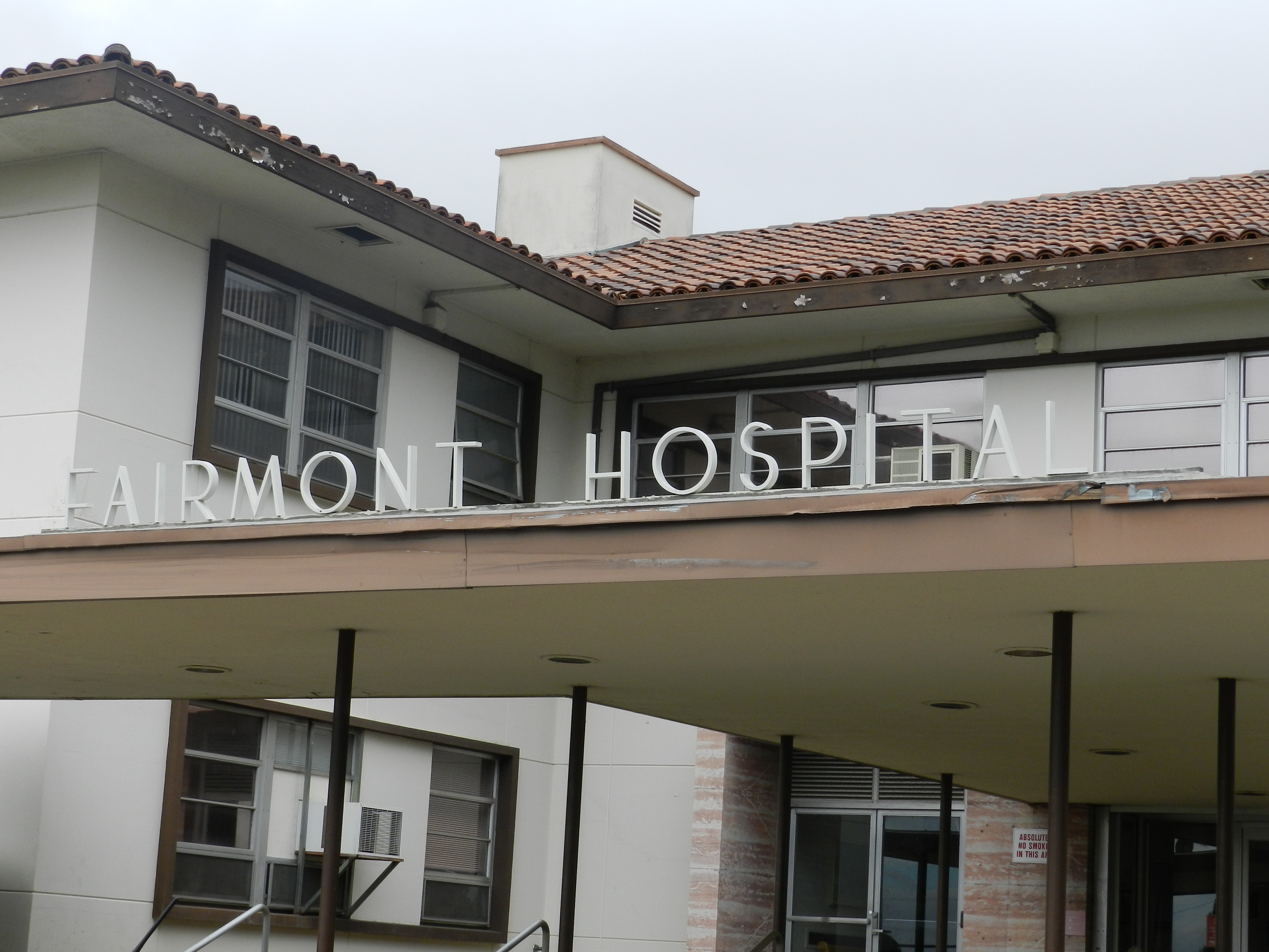 entrance to non-hospital building, Fairmont hospital, san leandro, california, a division of Alameda County Medical center